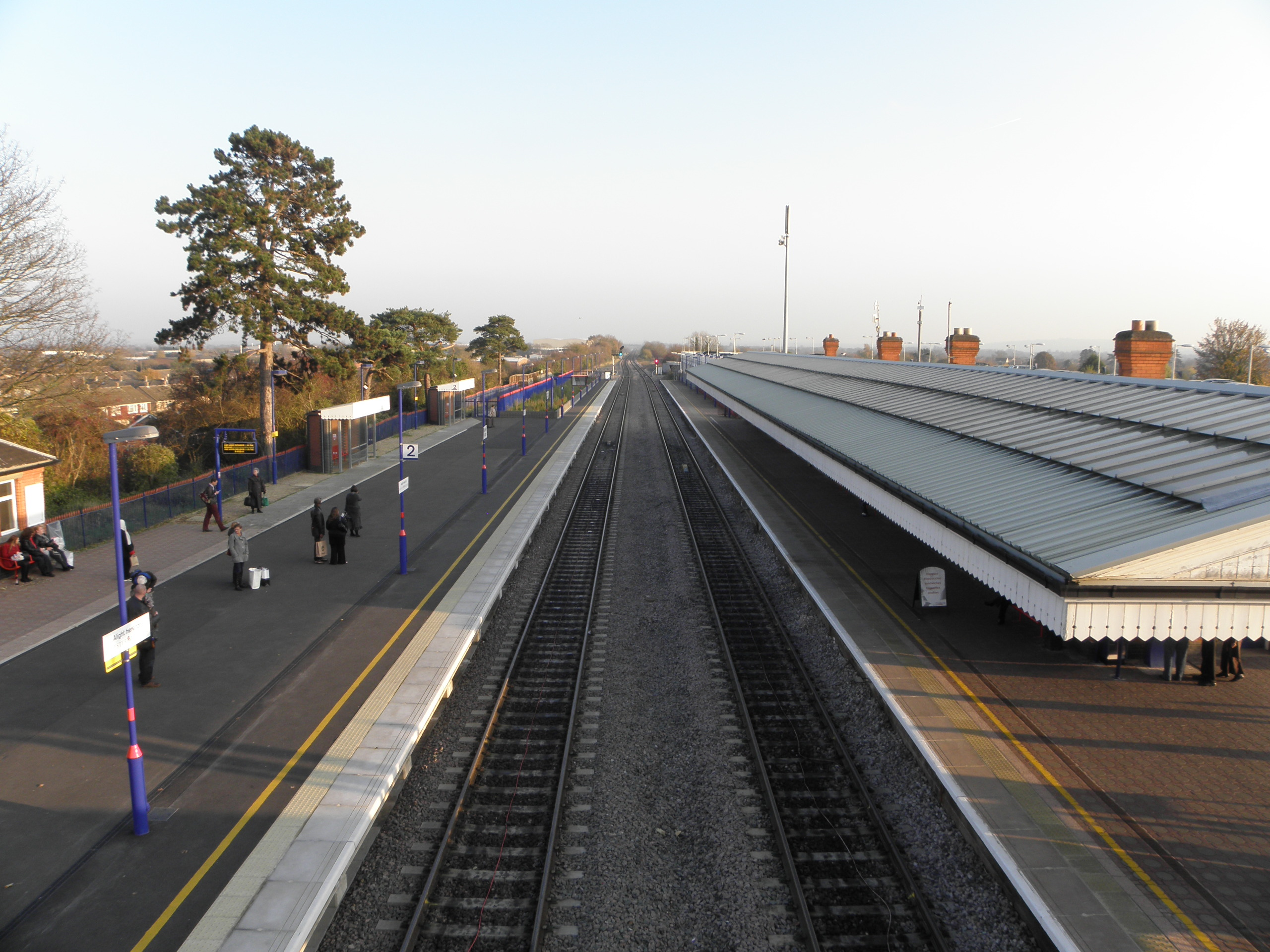 Bicester North station looking south from footbridge, showing the newly widened "up" (London-bound) platform on the left.